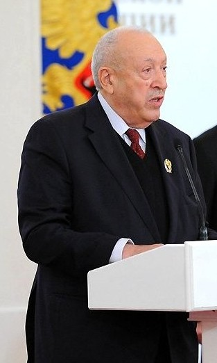 Tair Salakhov, 2013